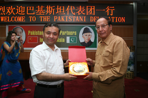 Chahudary Shujaat Hussain on visit to Xinjiang Medical University